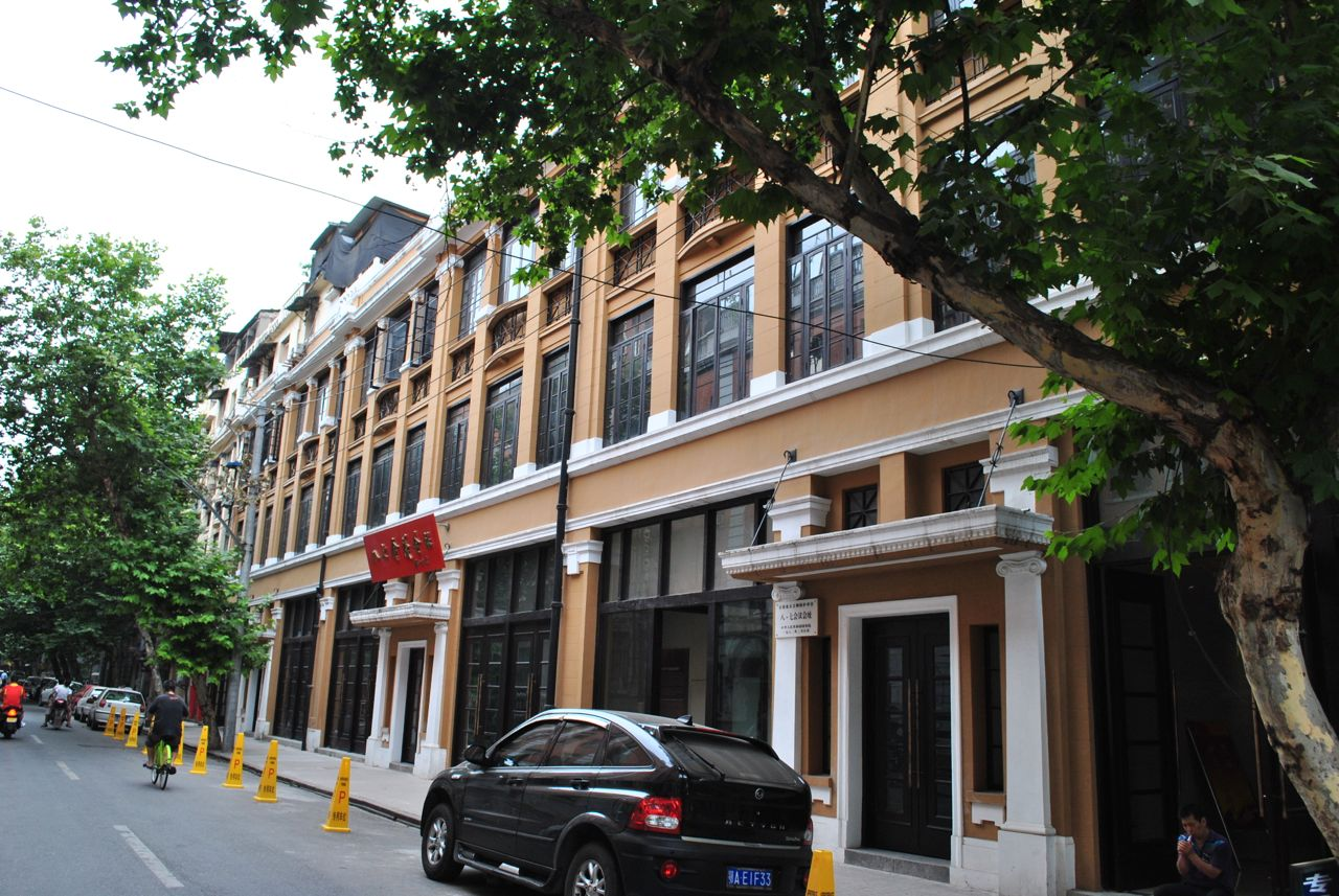 August 7 meeting building